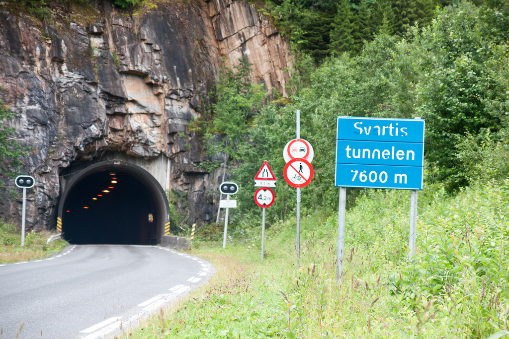 Svartisen Tunnel in Meløy municipality, Nordland county, Norway. Original description: Length 7,6 kilometers!